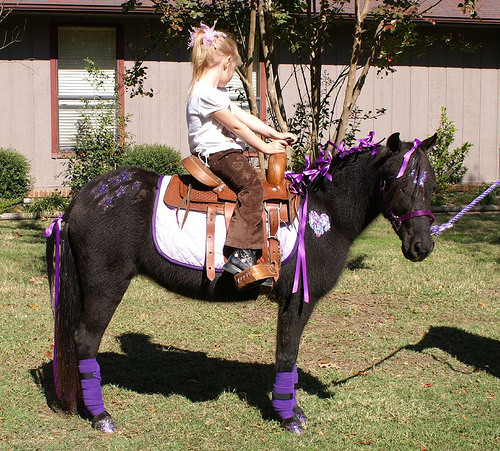 Story posted here .